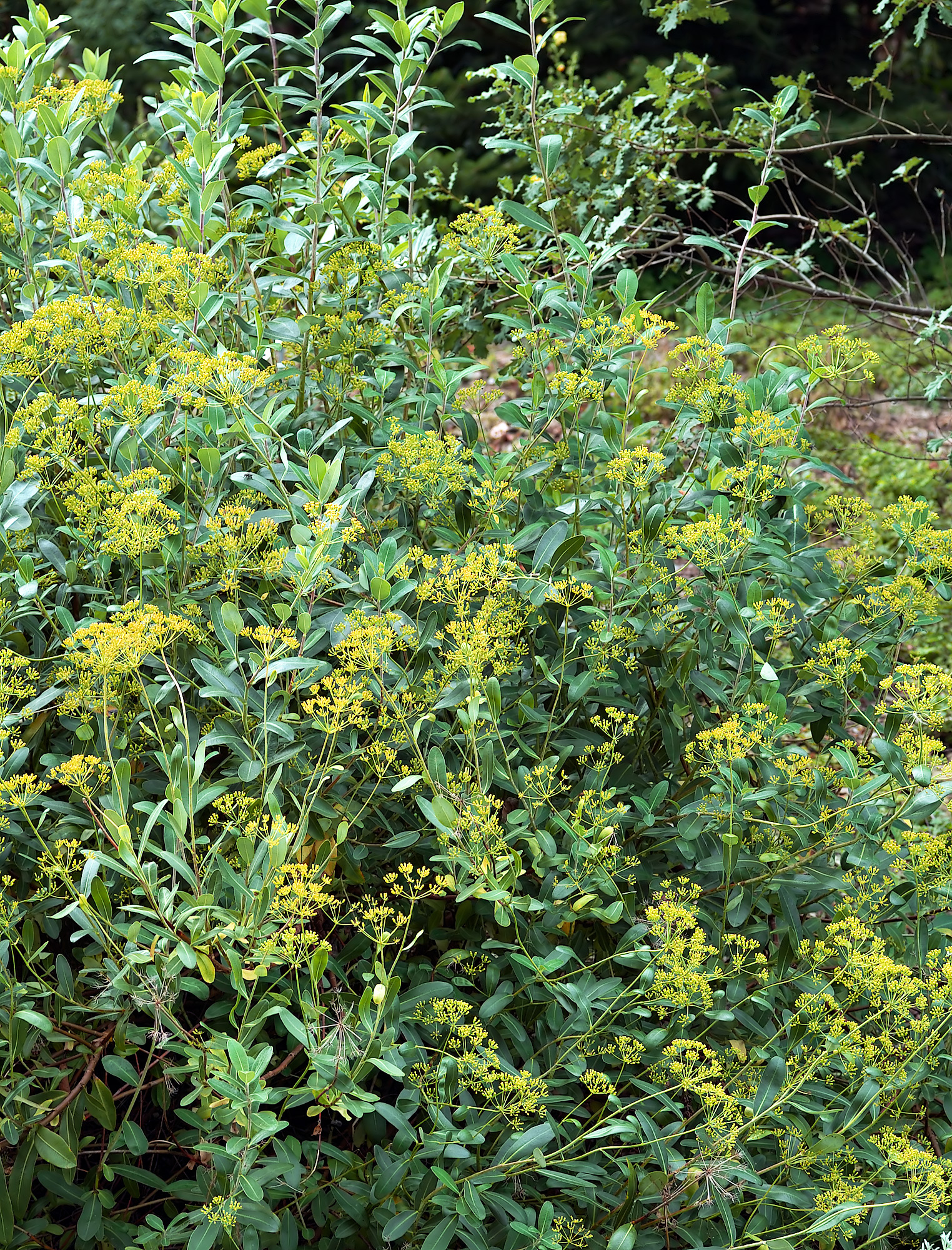 This image shows a Shrubby Hare's ear (Bupleurum fruticosum).